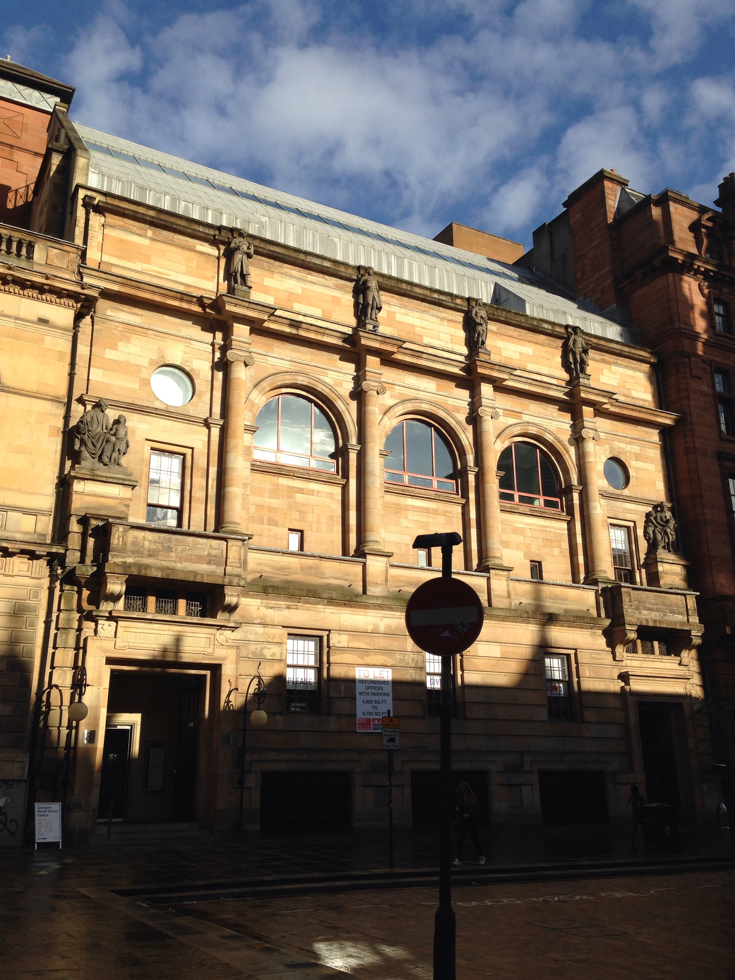 Category A listed LB33234 at 8 NELSON MANDELA PLACE, FORMER ATHENAEUM.